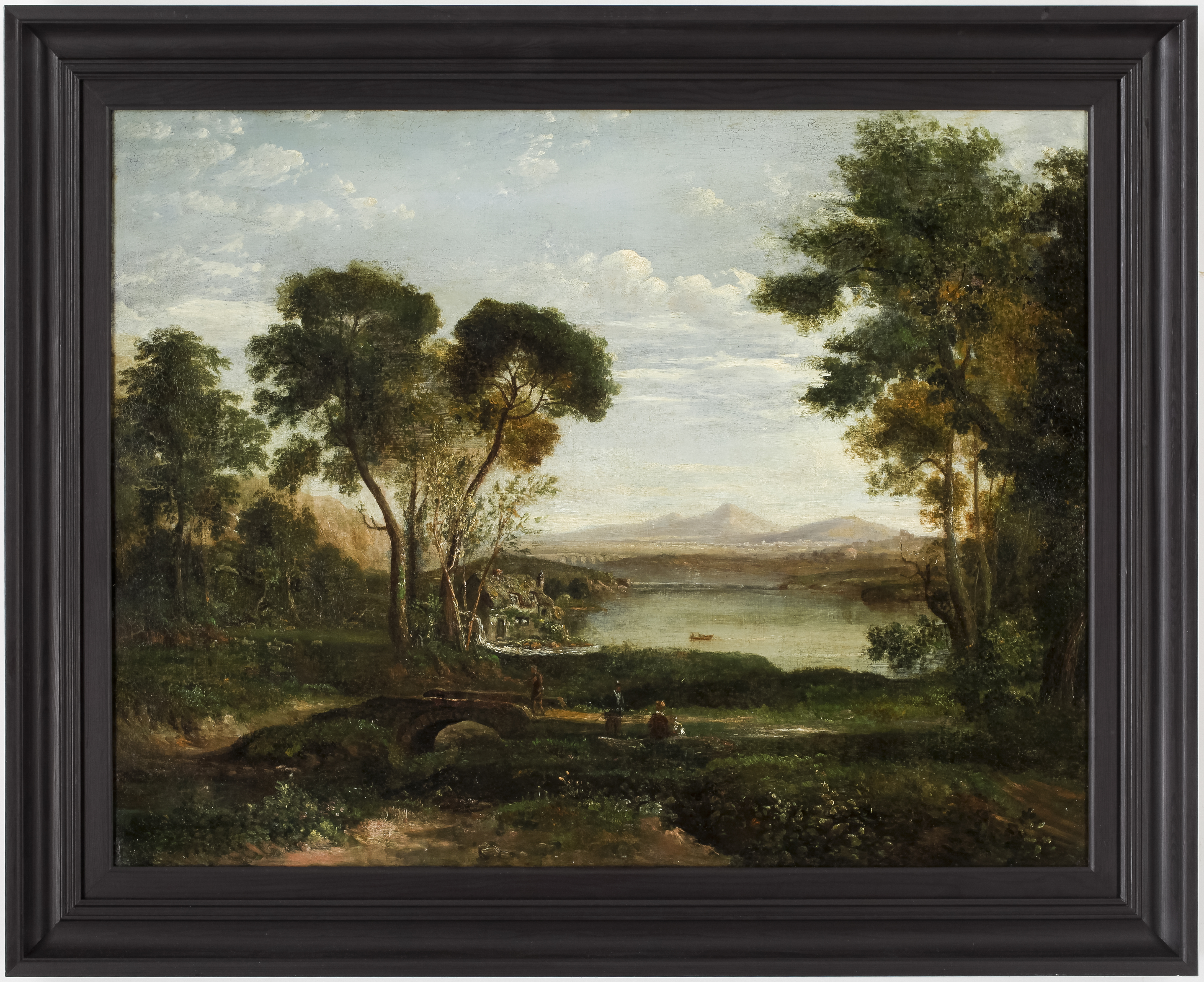 Carl Johan Fahlcrantz, Vidsträckt flodlandskap med vandrare vid en stenbro, olja på duk, ej signerad, 71 x 90 cm.